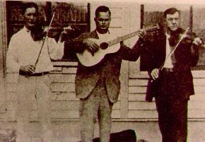 Riley Puckett and Gid Tanner with unknown fiddle player (some sources state that the unidentified person is fiddler Lowe Stokes, other sources say it's Bill Helms).